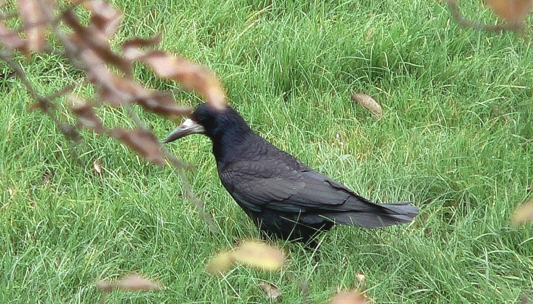 author is ulrich prokop - (Scops)